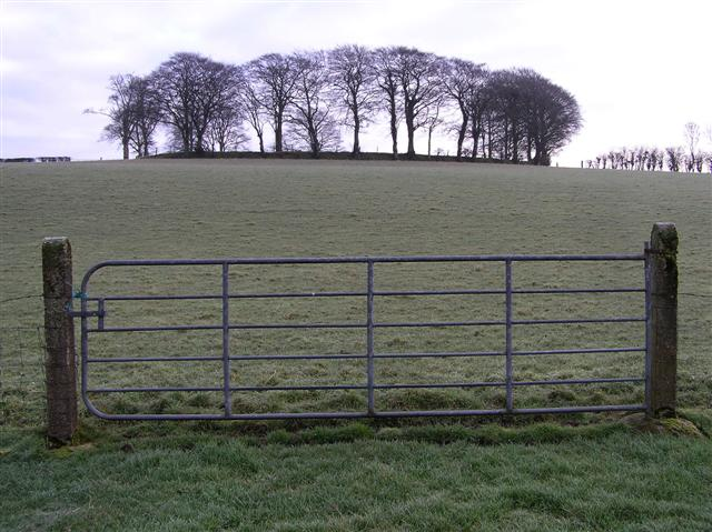 Nearing the Rath at Cavanacaw. I was left with the choice of un-ravelling the cord or climbing over the gate; I chose the latter as my hands had started to turn blue despite having gloves on. Years ago country folk were more superstitious and they would have been cautious to even enter such areas as they believed that the fairies had a connection with the circular area. Hill-forts and raths survived mostly to that fact.